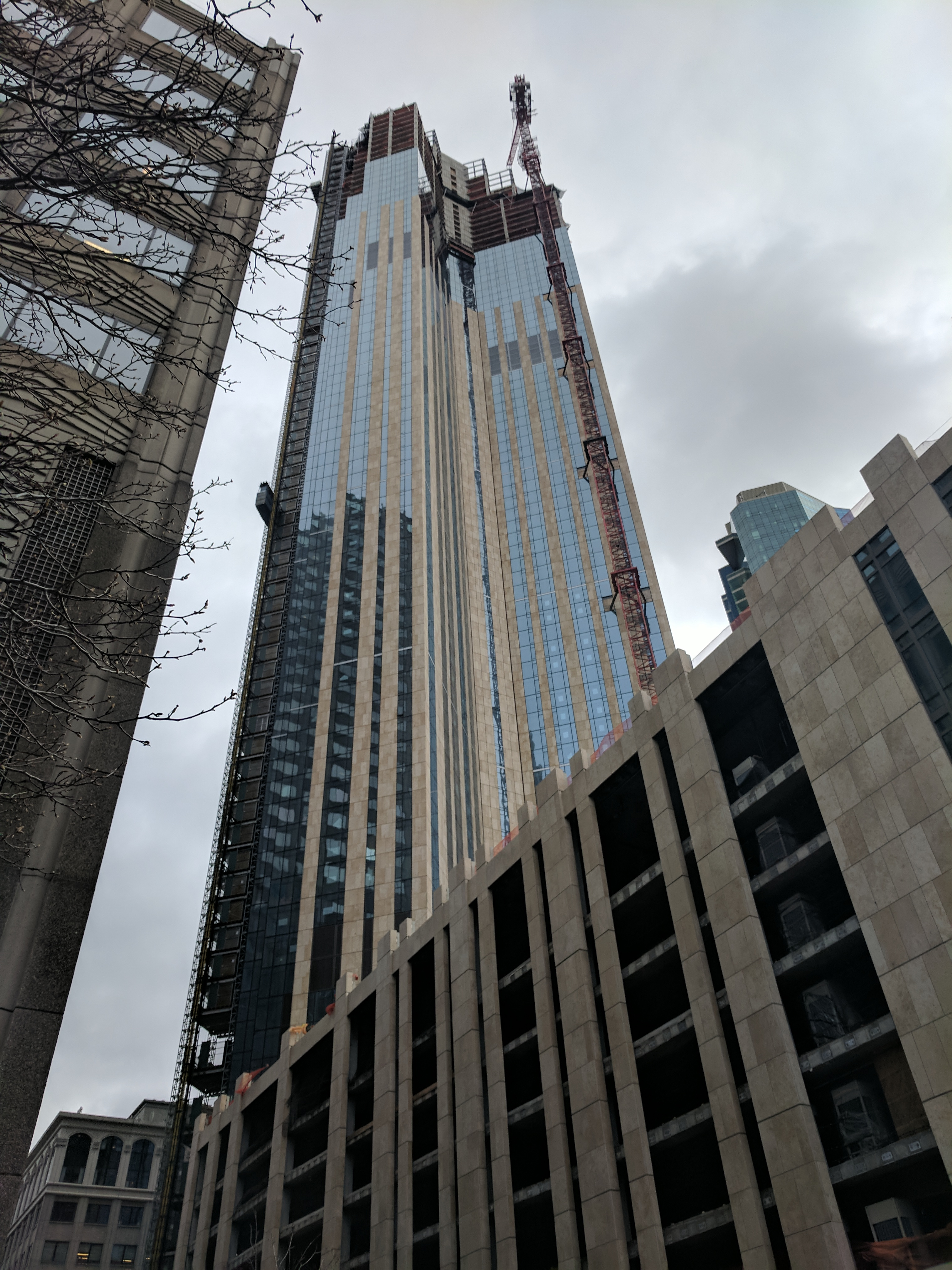 Construction on 99 Hudson St and attached podium from street level